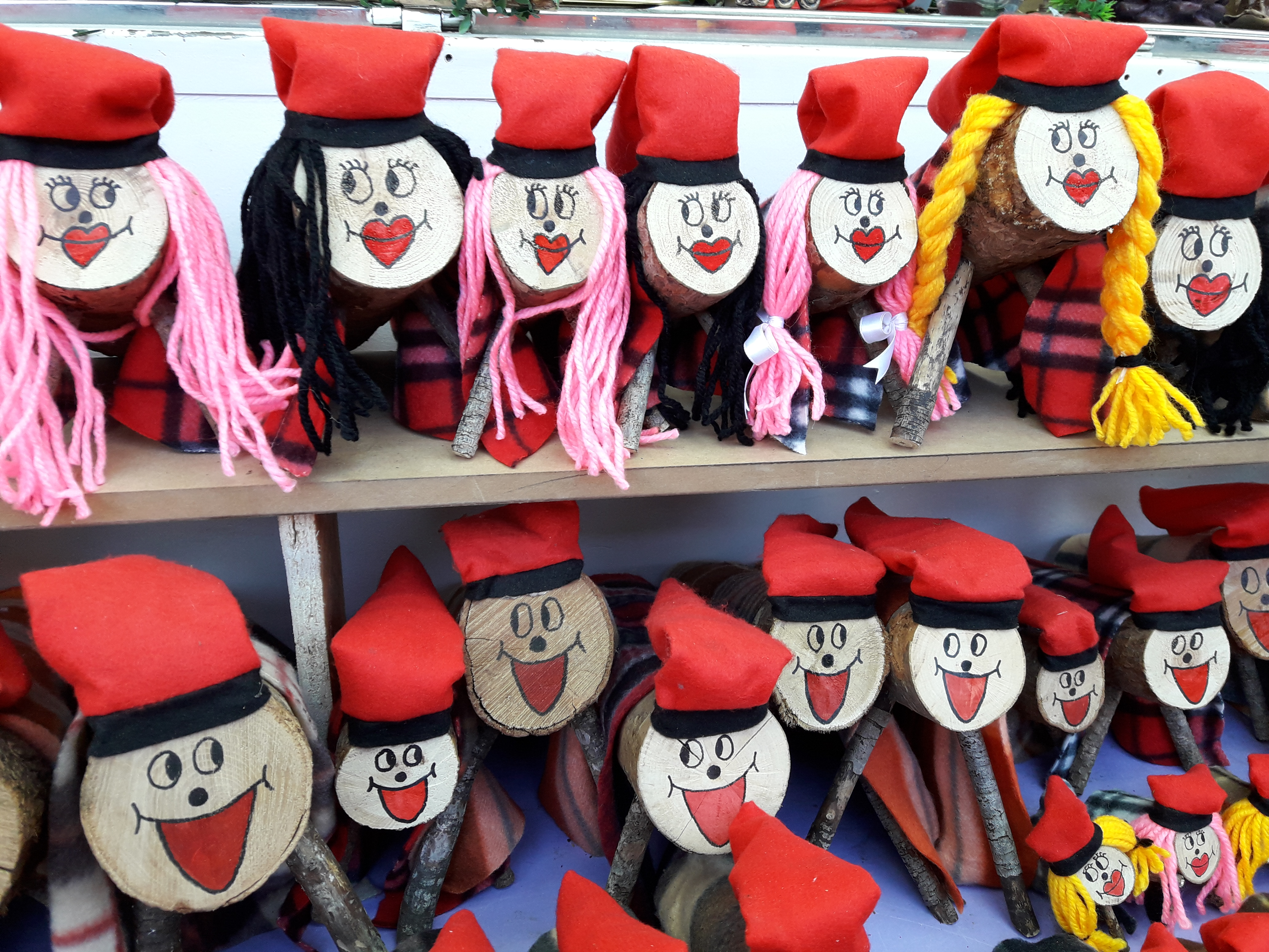 Catalan Christmas Log. Waiting to be adopted or, better, to be freed